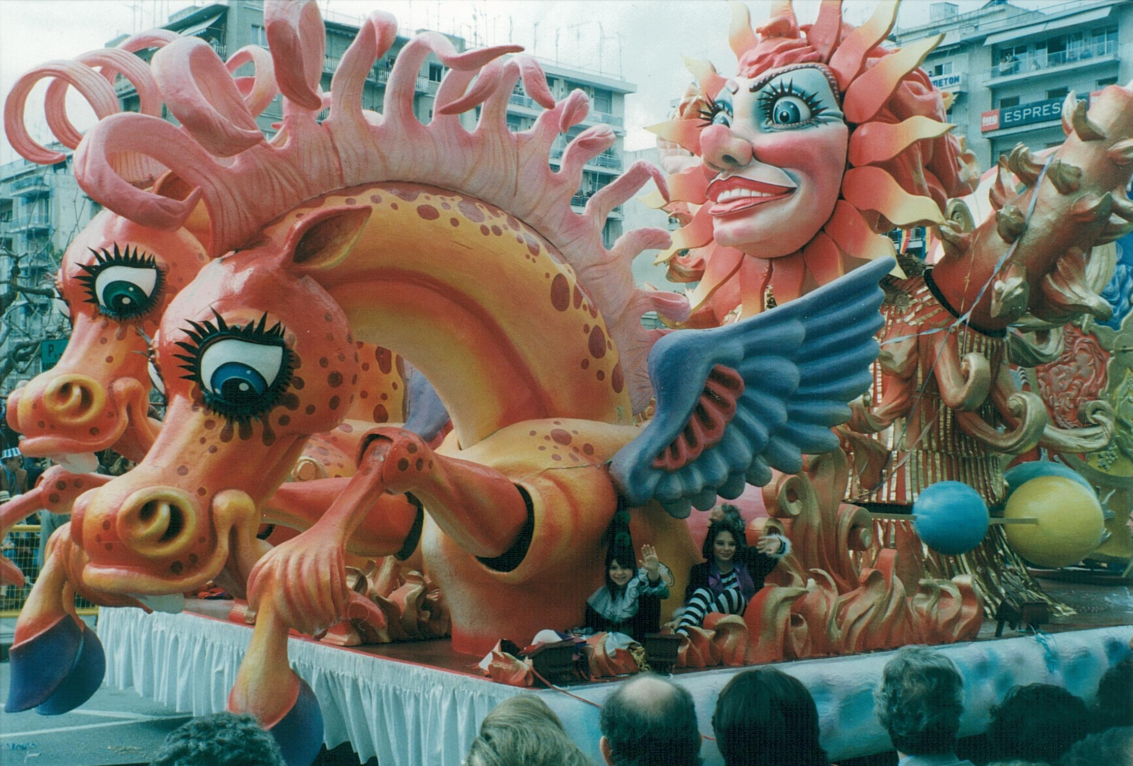 Patras Carnival 1995, The chariot of the sun